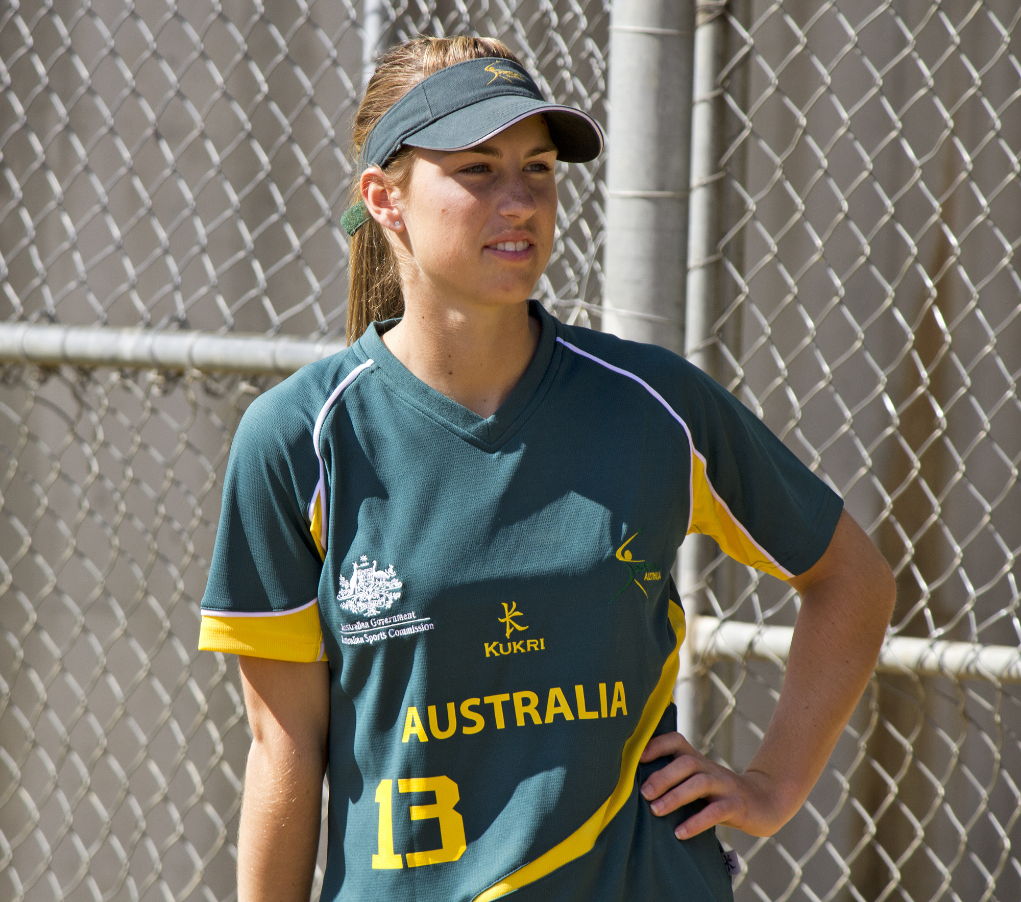 Australian softball player, Michelle Cox during a photoshoot.